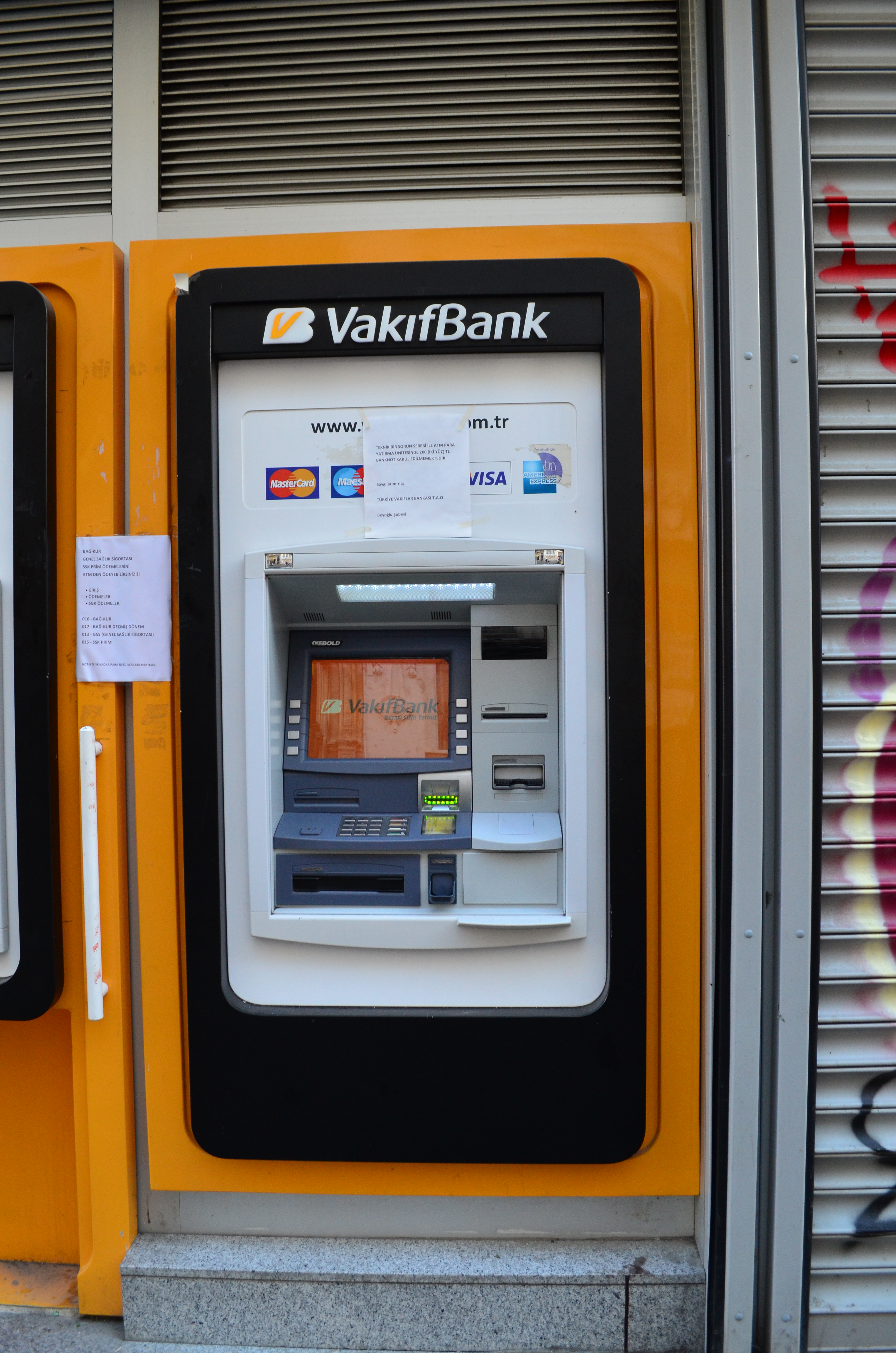 Istanbul